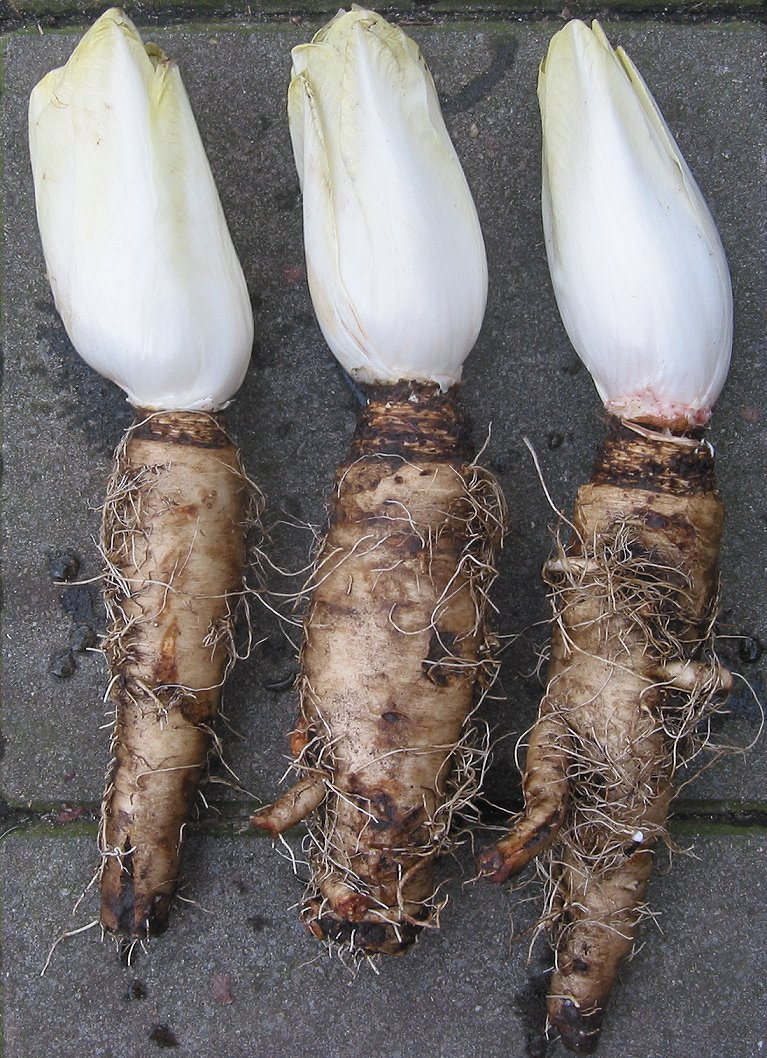 picture made by myself; gegin of january; Witlof (Cichory)